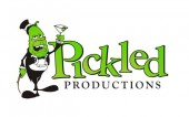 Pickled Productions logo from the now defunct theatre company